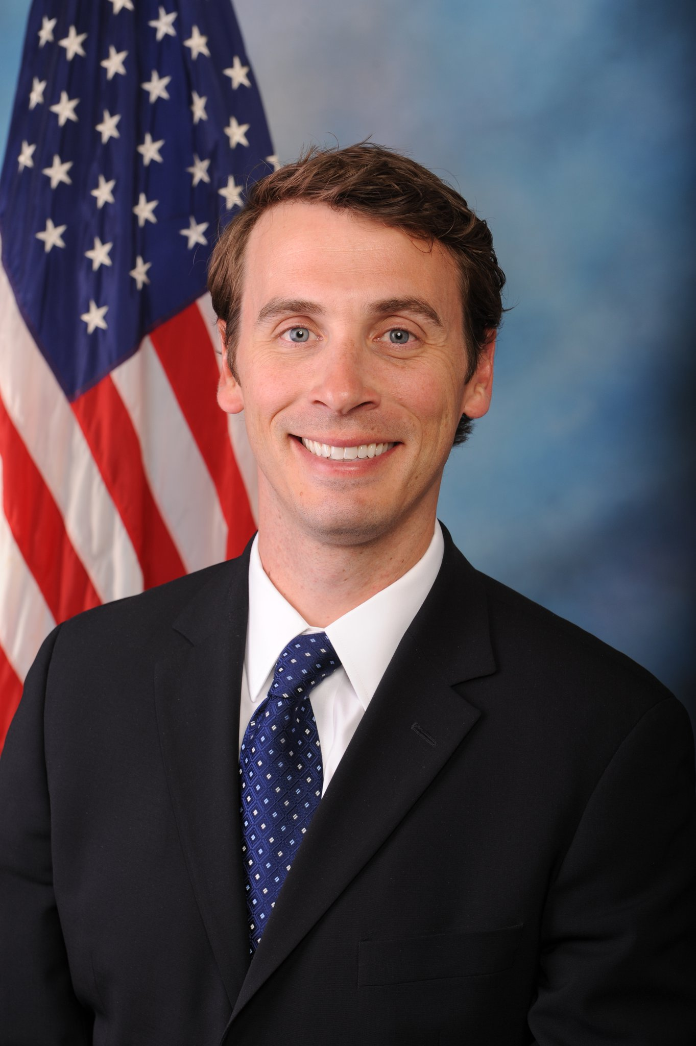 Official portrait of Congressman Ben Quayle.